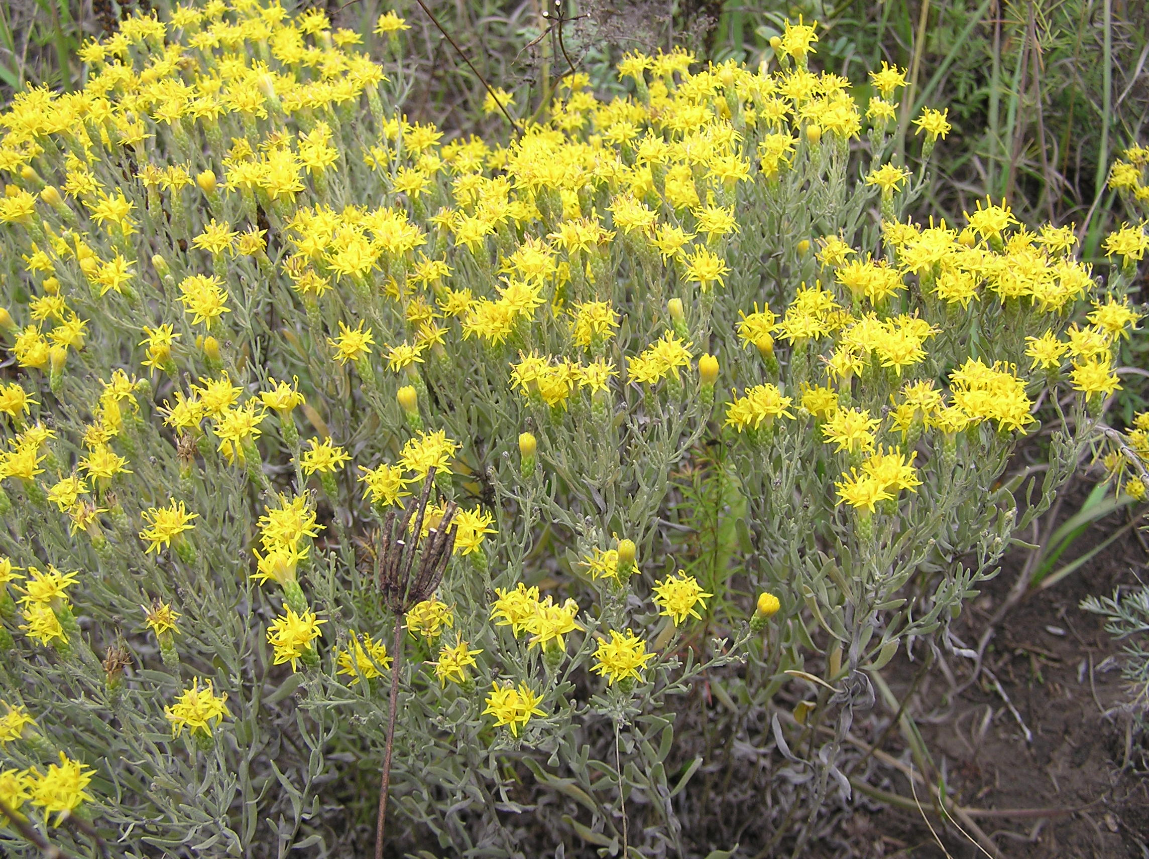 Galatella villosa (L.) Rchb. f., in natural habitat. Vicinity of Saratov city, Russia.